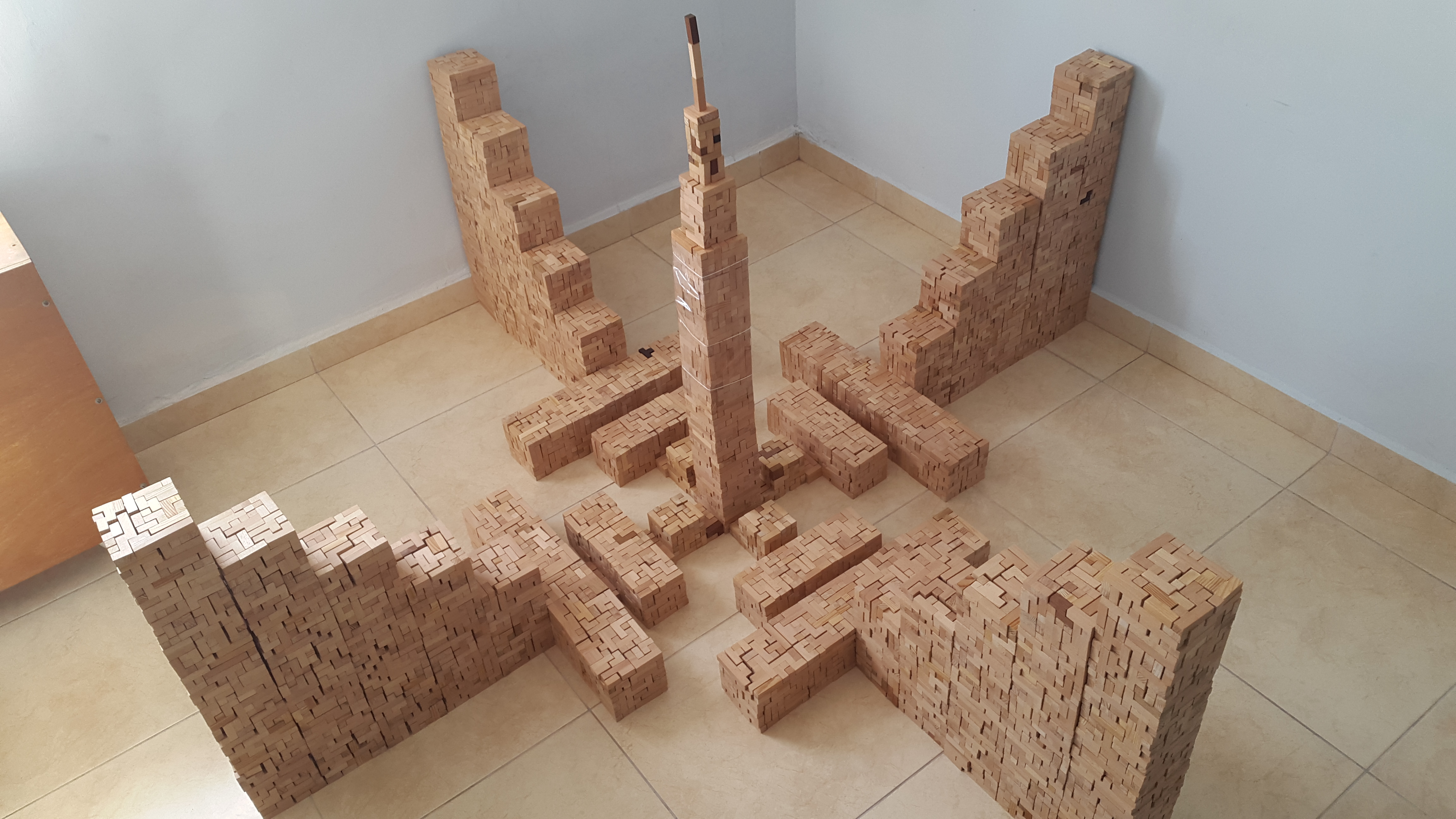 a building made of Polyomino cubes